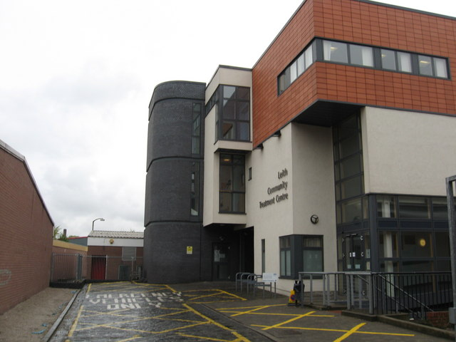 Leith Community Treatment Centre Situated off the end of Junction Place.